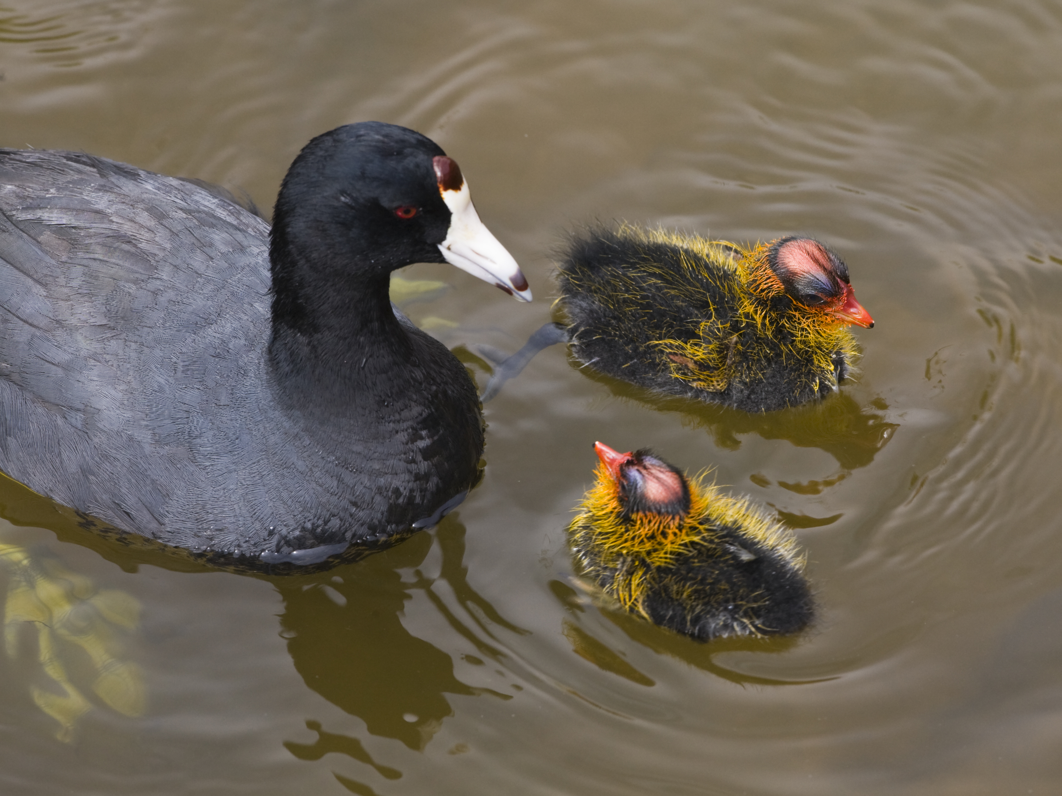 American Coot (Fulica americana) family at the Cloisters City Park pond in Morro Bay, CA 04 June 2007 04june2007 - Canon 5D with 300mm IS lens w/ 12mm extension tube on solid tripod